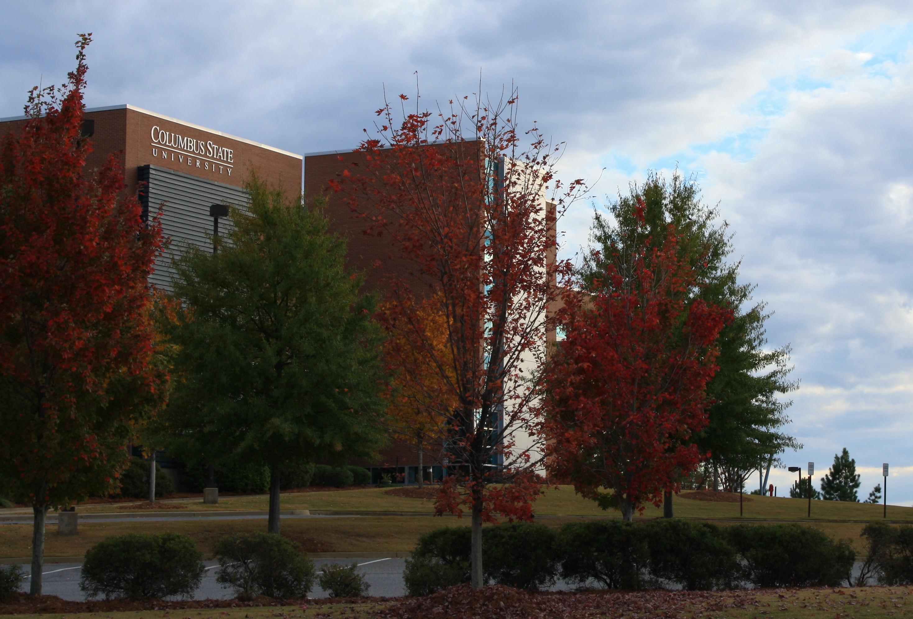 Columbus State University